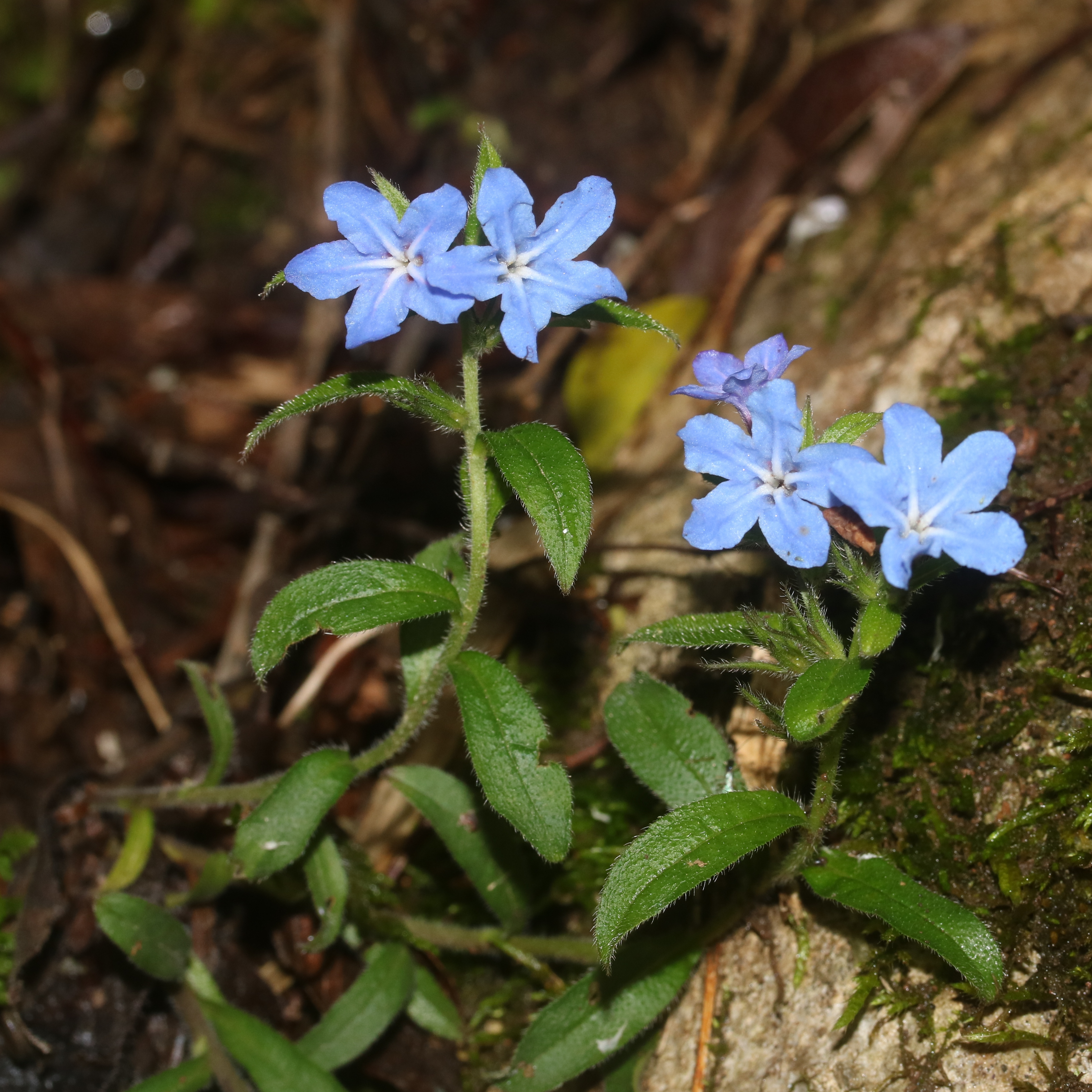 Lithospermum zollingeri in Mount Ibuki, Maibara, Shiga Prefecture, Japan.